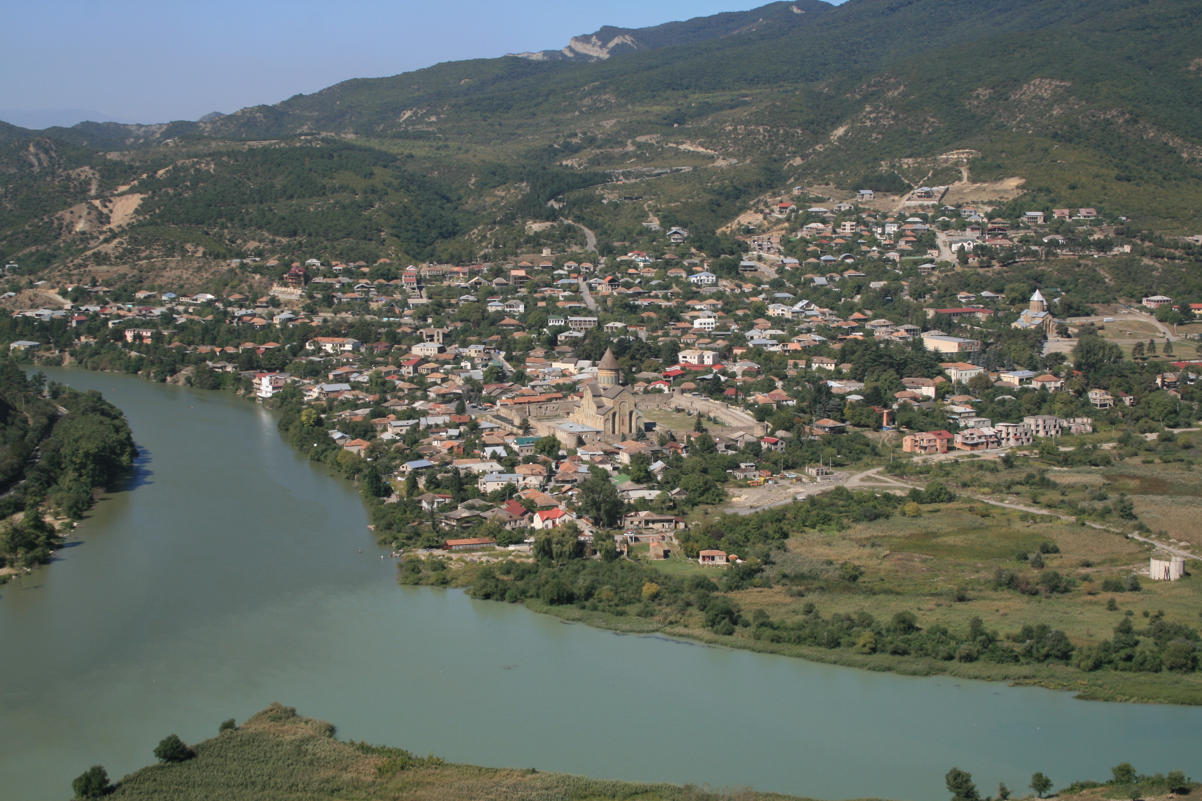 Georgian ancient capital of Mtskheta, as seen from Jvari Monastery